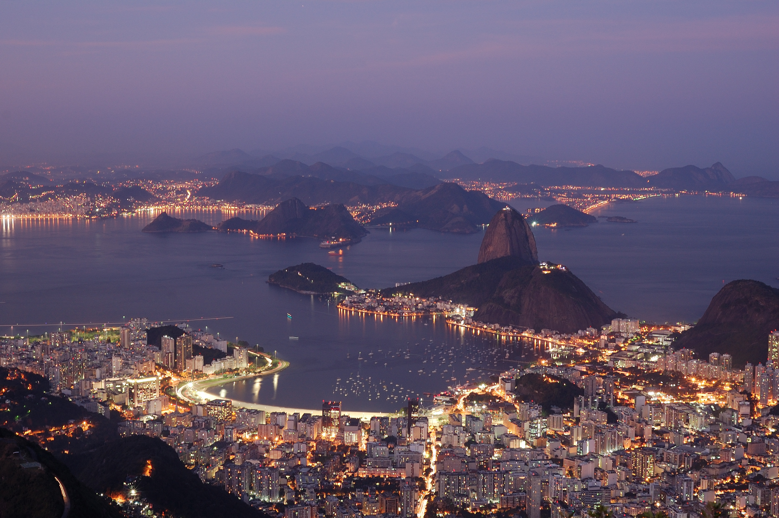 View of Botafogo Bay at night, Rio de Janeiro, Brazil.